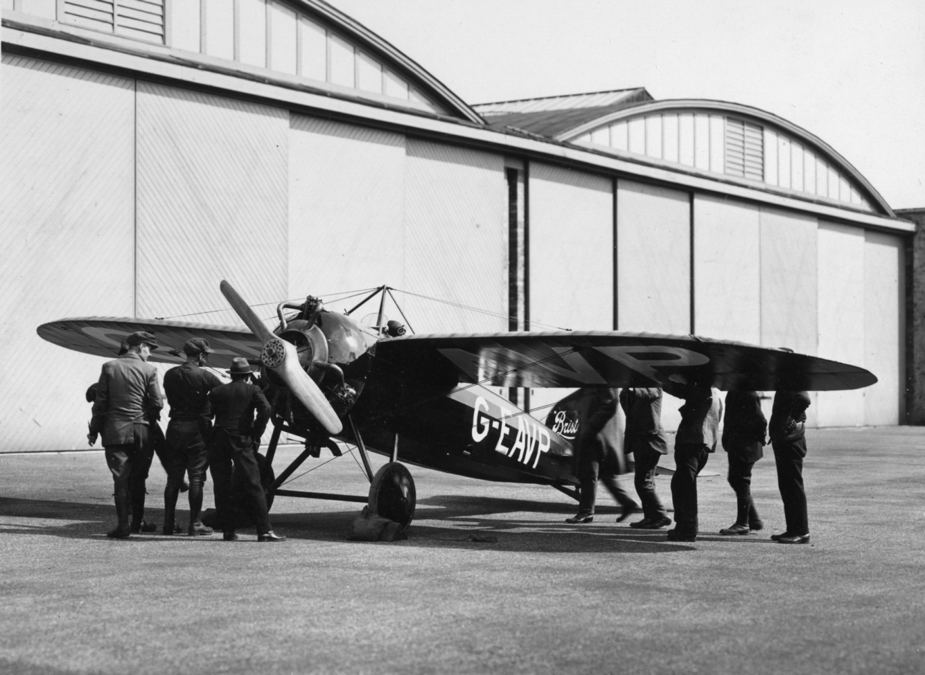 Bristol M.1D G-AEVP in the early twenties